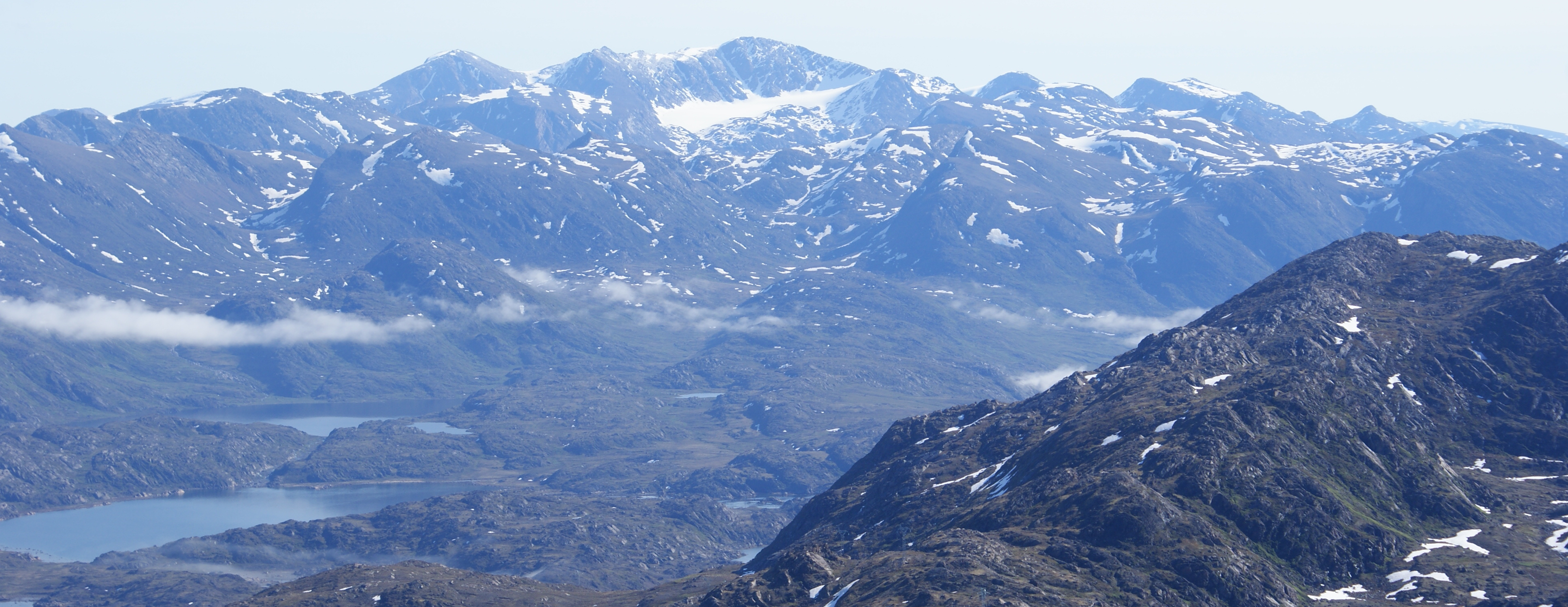 Aqqutikitsoq (1448m), a massif in the Qeqqata municipality in western Greenland. Photographed from Palasip Qaqqaa.